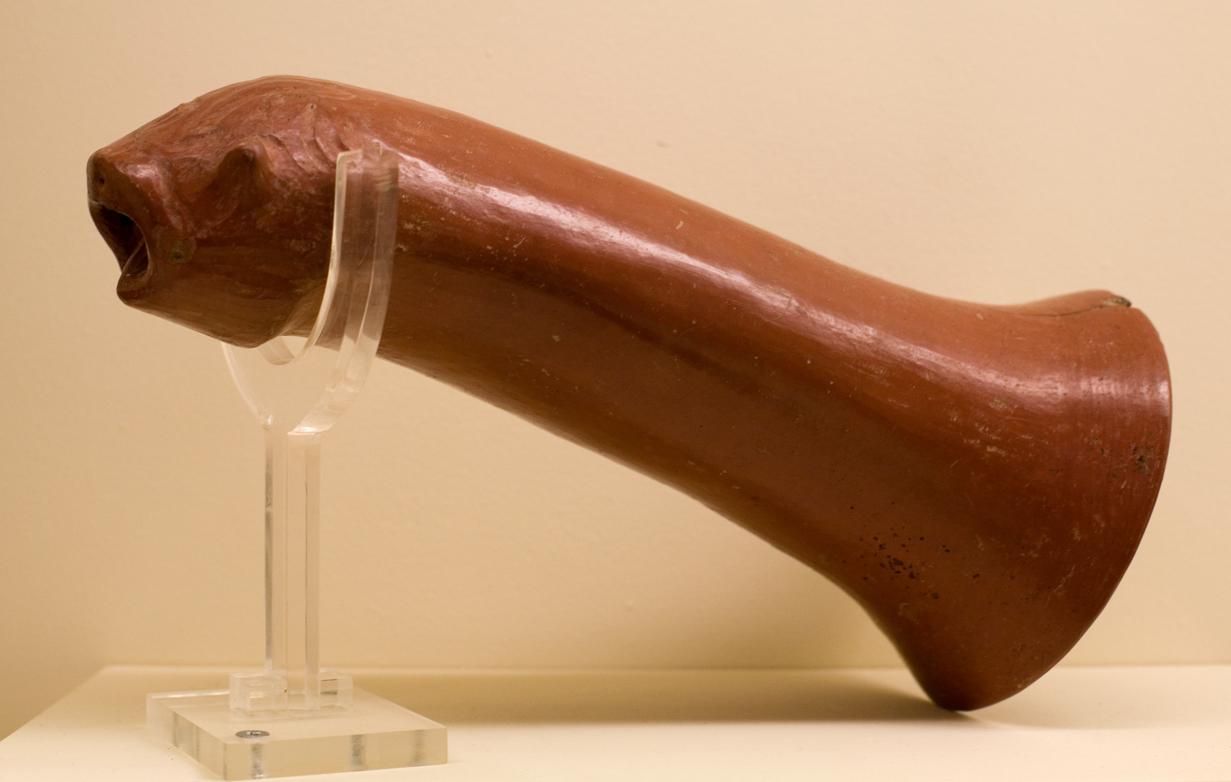 Urartian Clay Goblet